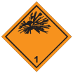 danger of explosion